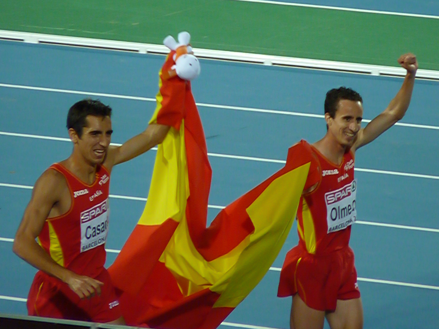 Arturo Casado and Manuel Olmedo - Barcelona 2010 - winning gold and bronze